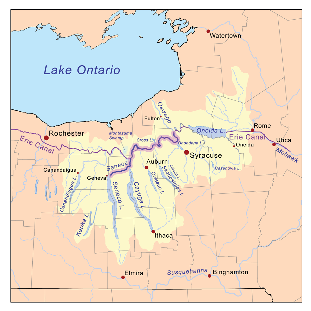 This is a map of the Oswego River drainage basin, with the Seneca River highlighted. I, Karl Musser, created it based on USGS data.